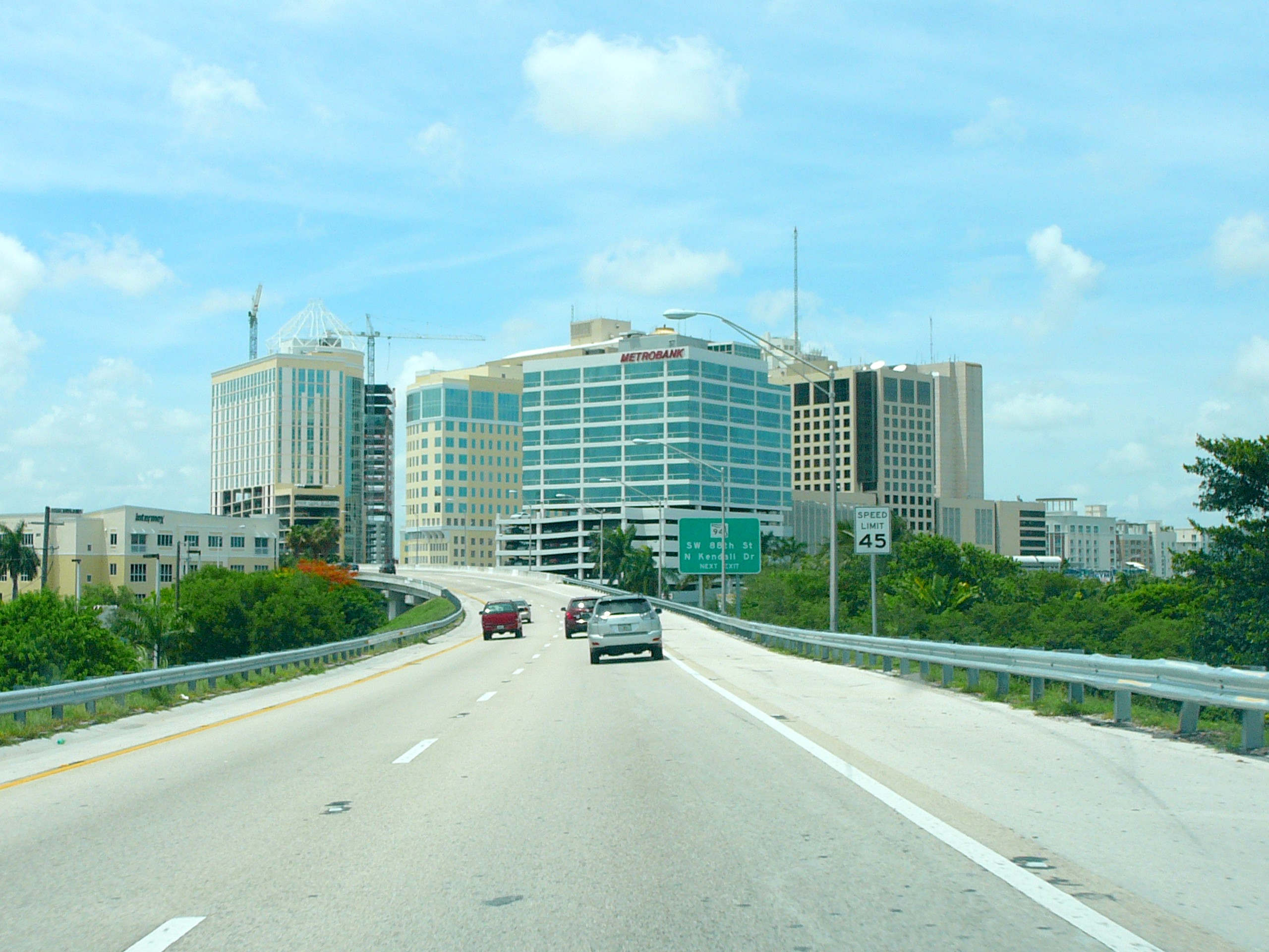 Digital photo taken by Marc Averette. Skyline of Kendall, Florida at the Dadeland Mall's central business district 7/10/2008.